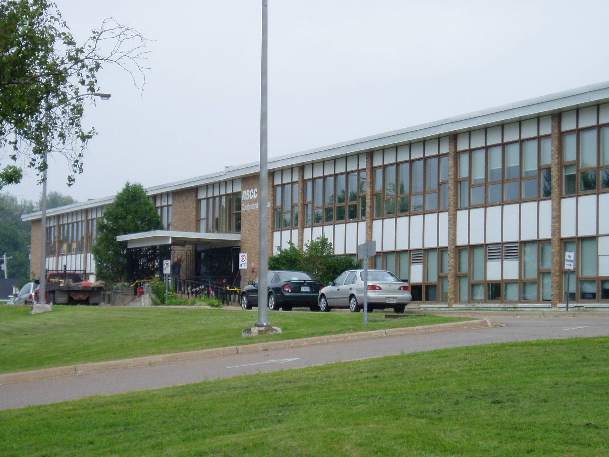 Nova Scotia Community College - Cumberland Campus. Taken by SimonP